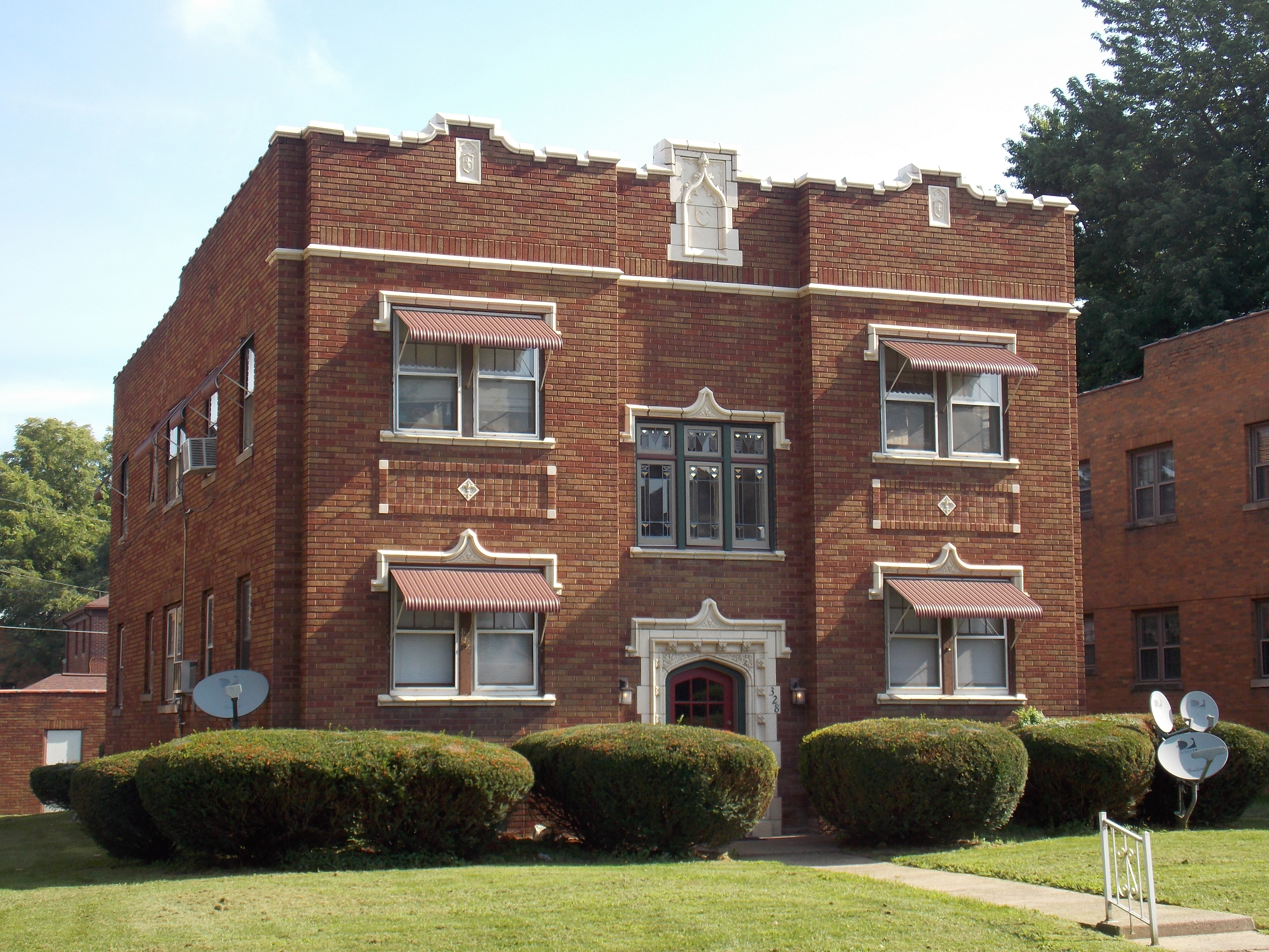 The building at 328 Columbia Avenue in Davenport, Iowa is a contributing property in the Columbia Avenue Historic District.